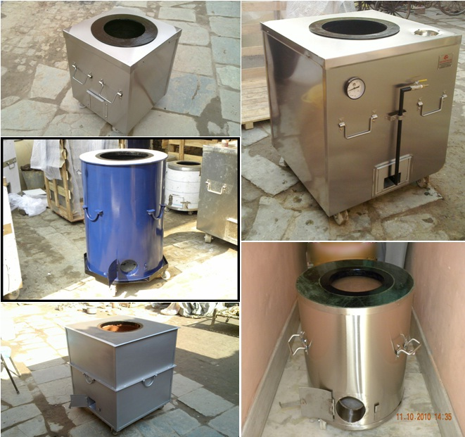 Types of Tandoors now a days.